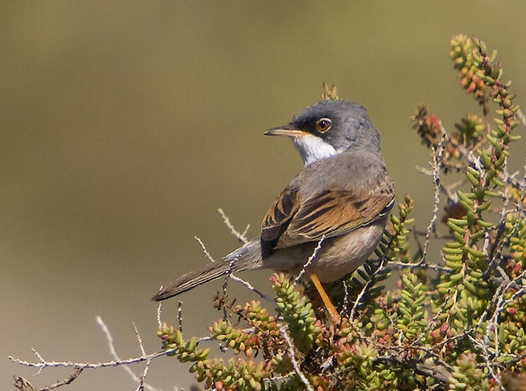 Male Spectacled Warbler (subspecies S. c. orbitalis), El Castillo del Romeral, Gran Canaria, Spain.